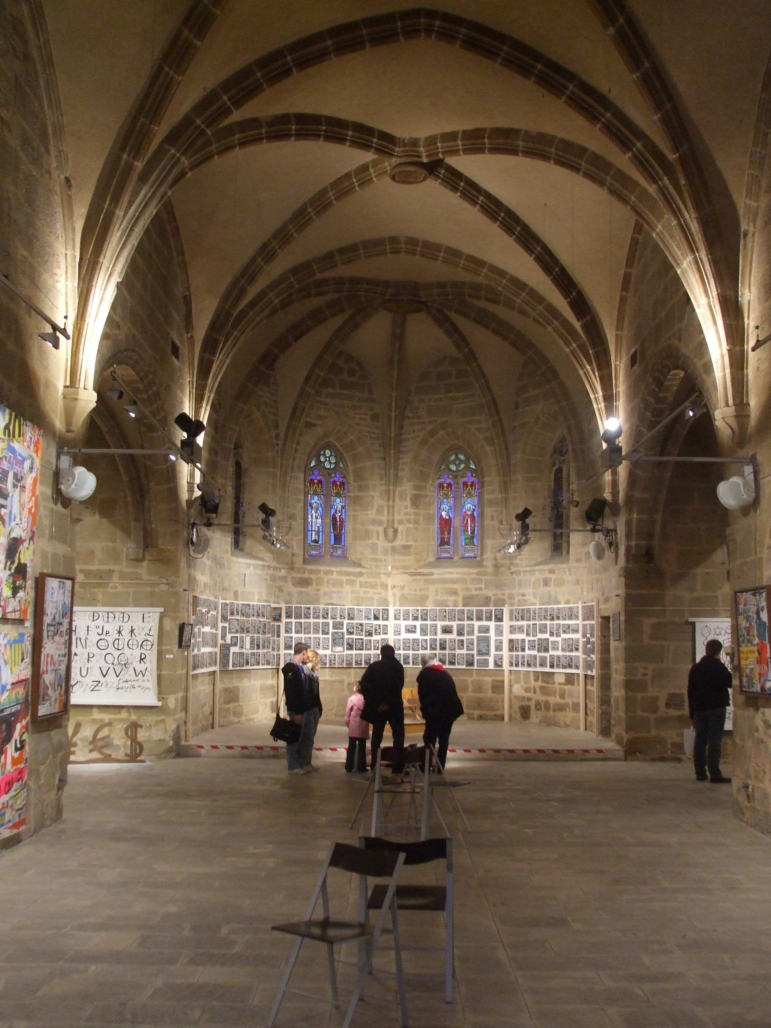 Inside the chapel of Saint-Liberal Brive-la-Gaillarde, during an exhibition, 2010/11/06